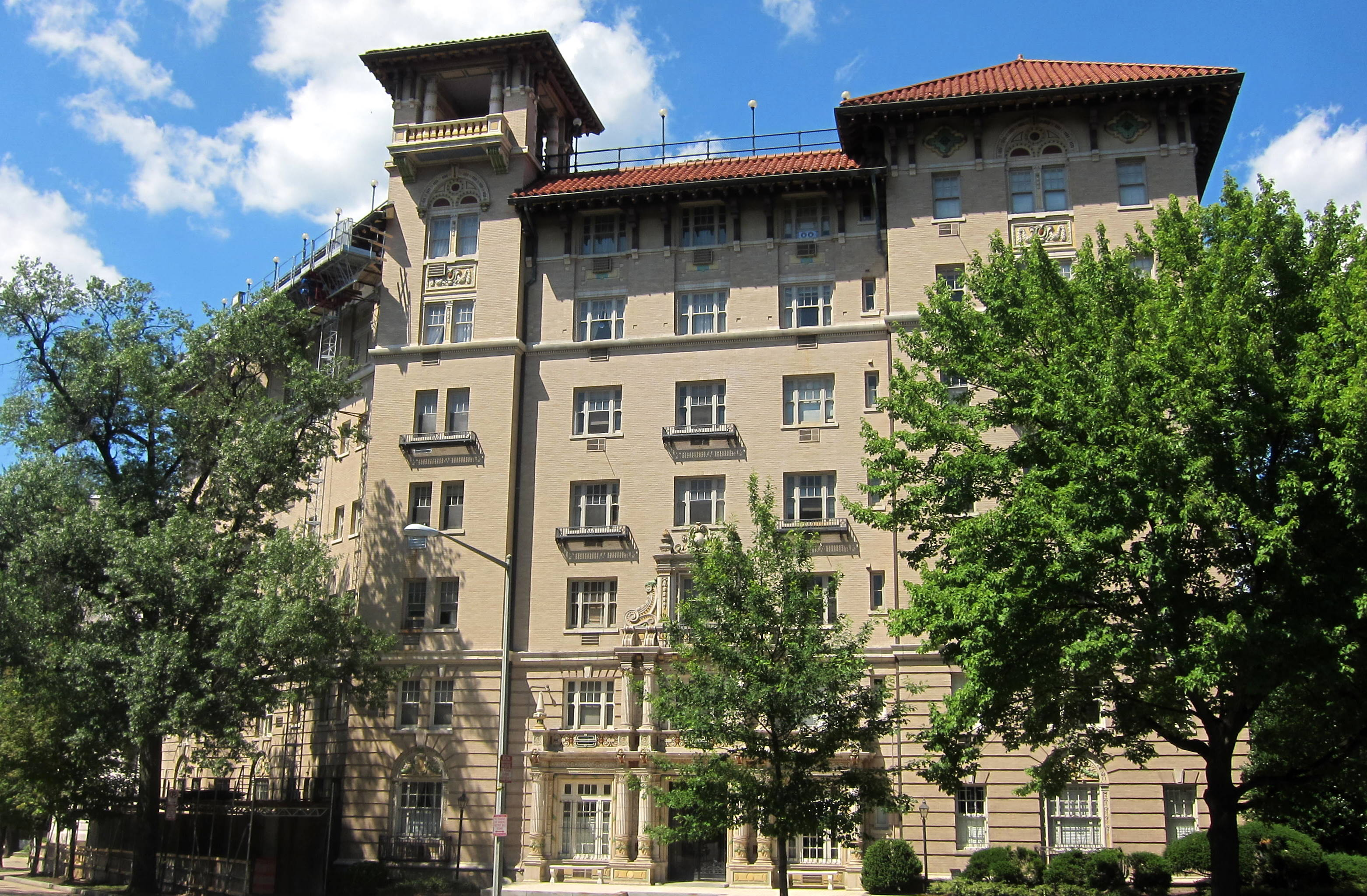 The Woodward Condominium located at 2311 Connecticut Avenue, N.W., in the Kalorama neighborhood of Washington, D.C. Built in 1910 to the designs of architects Harding and Upman, the Spanish Colonial Revival style former apartment building (originally named the Woodward Apartments) is designated as a contributing property to the Kalorama Triangle Historic District, listed on the National Register of Historic Places in 1987. Former occupants include Edward Keating.